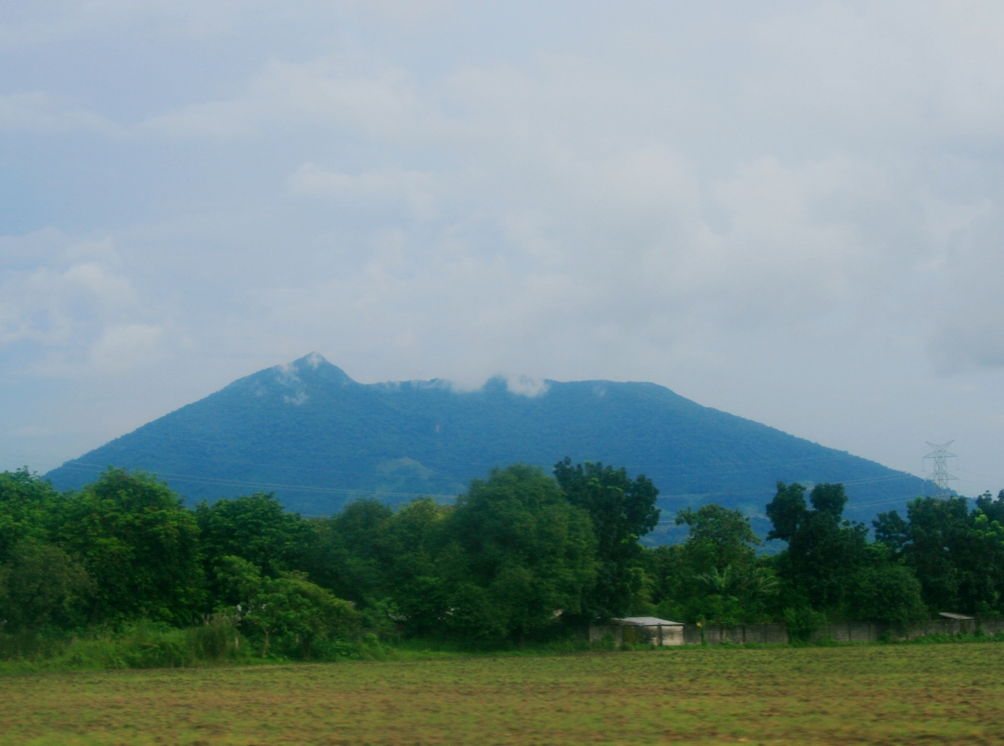 Mount Arayat as seen from the NorthWest, on a detour from the North Luzon Expressway